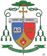 crest konkolys